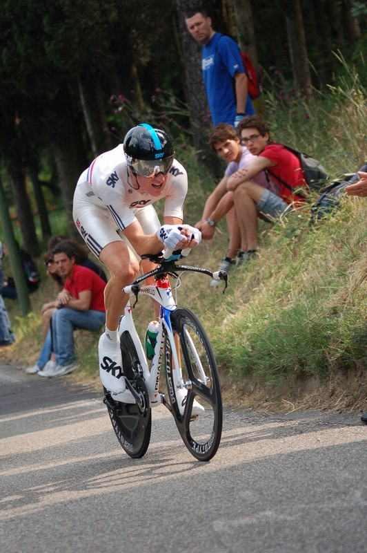 Bradley Wiggins on stage 21 of the 2010 Giro d'Italia.